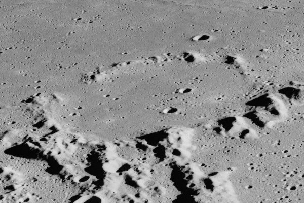 Oblique view of Oppolzer crater, on the moon, facing north.